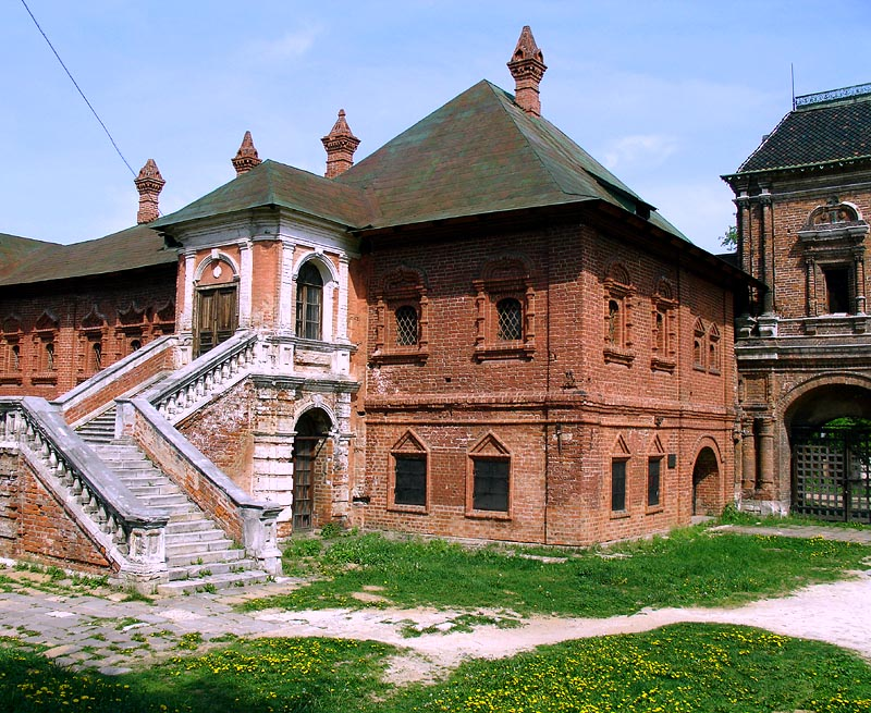 Moscow, Metochion, The Porch